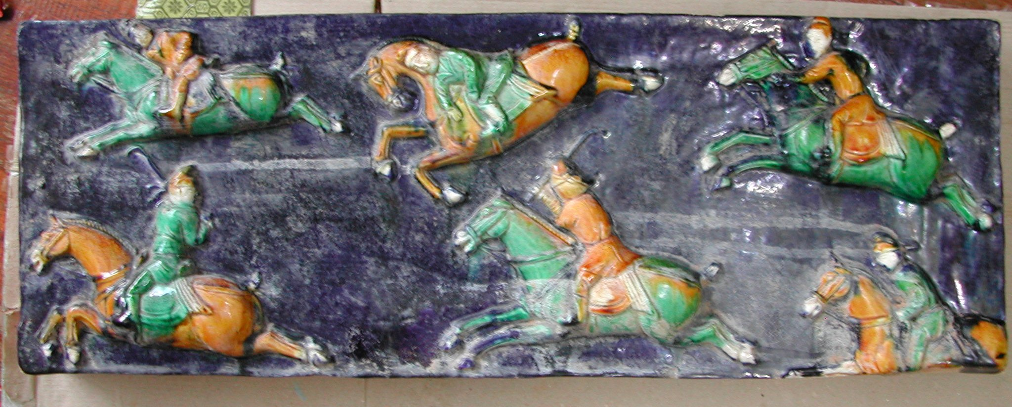 Tang Dynasty era relief block displaying a polo game